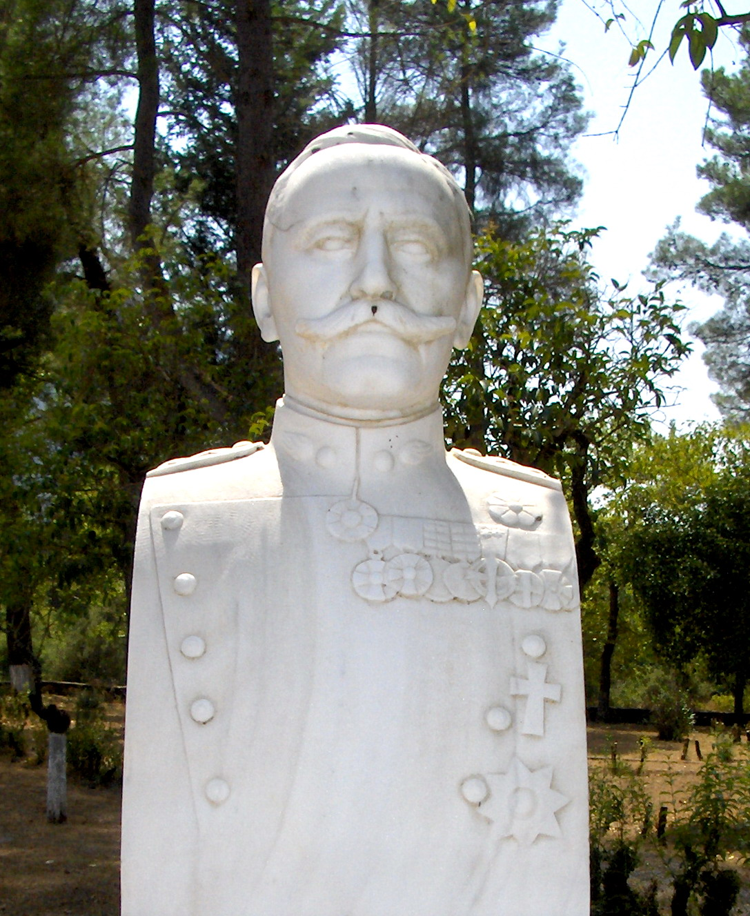 General Konstantinos Sapountzakis 1912-1913 War Museum, Emin Agha Inn, Ioannina, Greece